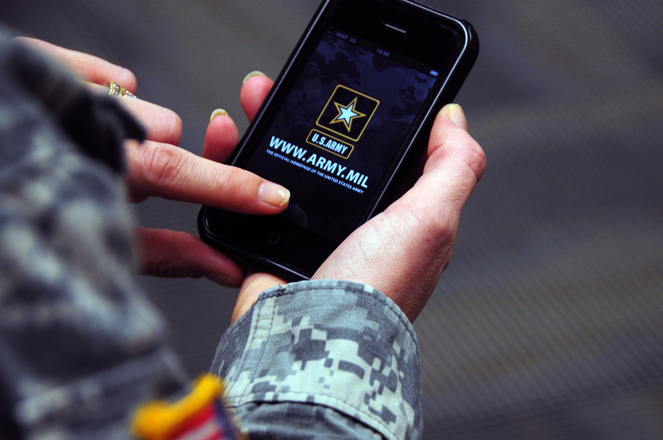 army news app